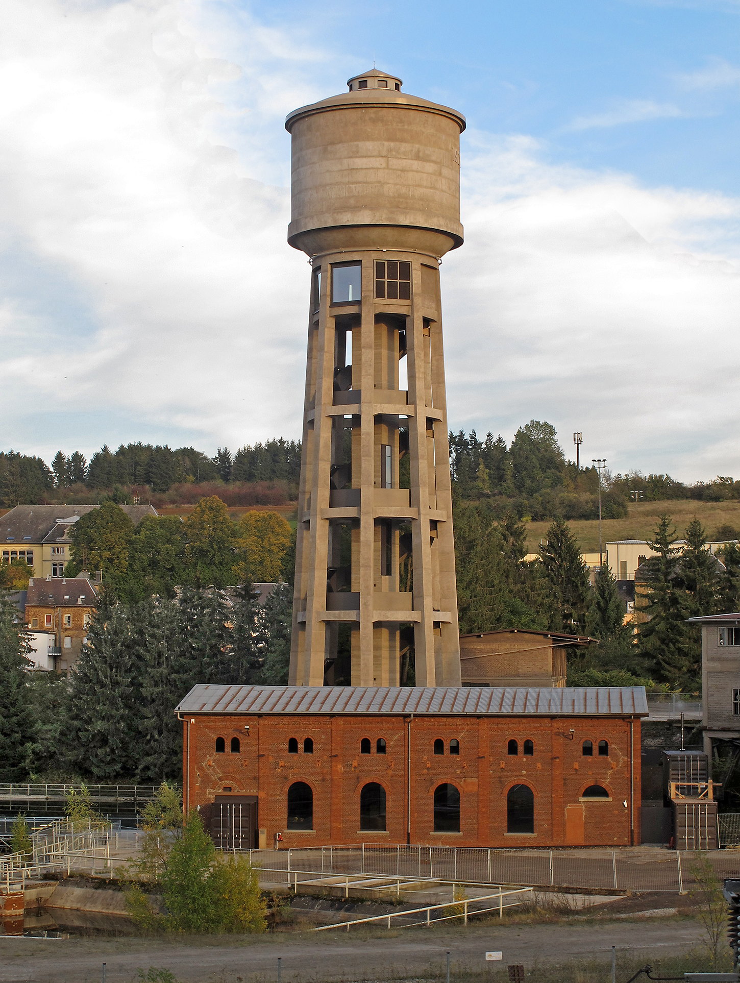 Water tower and pumpstation of the former smelting works of Dudelange, Luxembourg